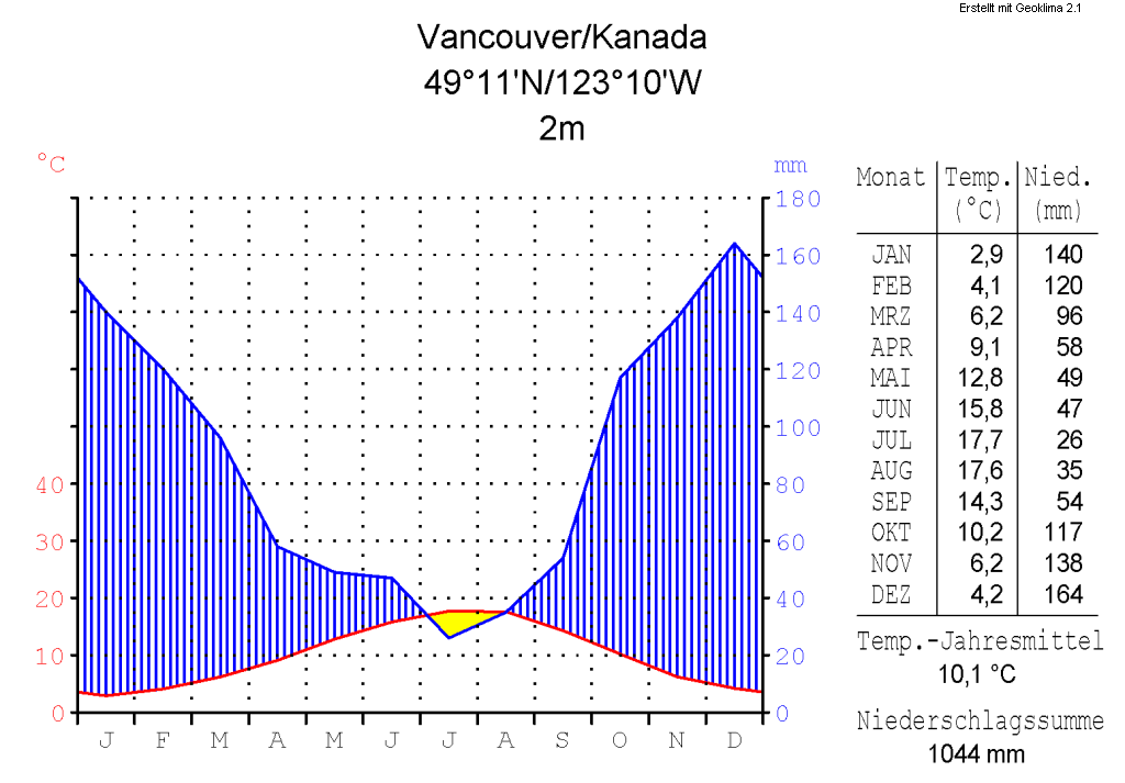 climate chart in the format by Walther and Lieth, metric, °Celsisus and millimeters, made with Geoklima 2.1